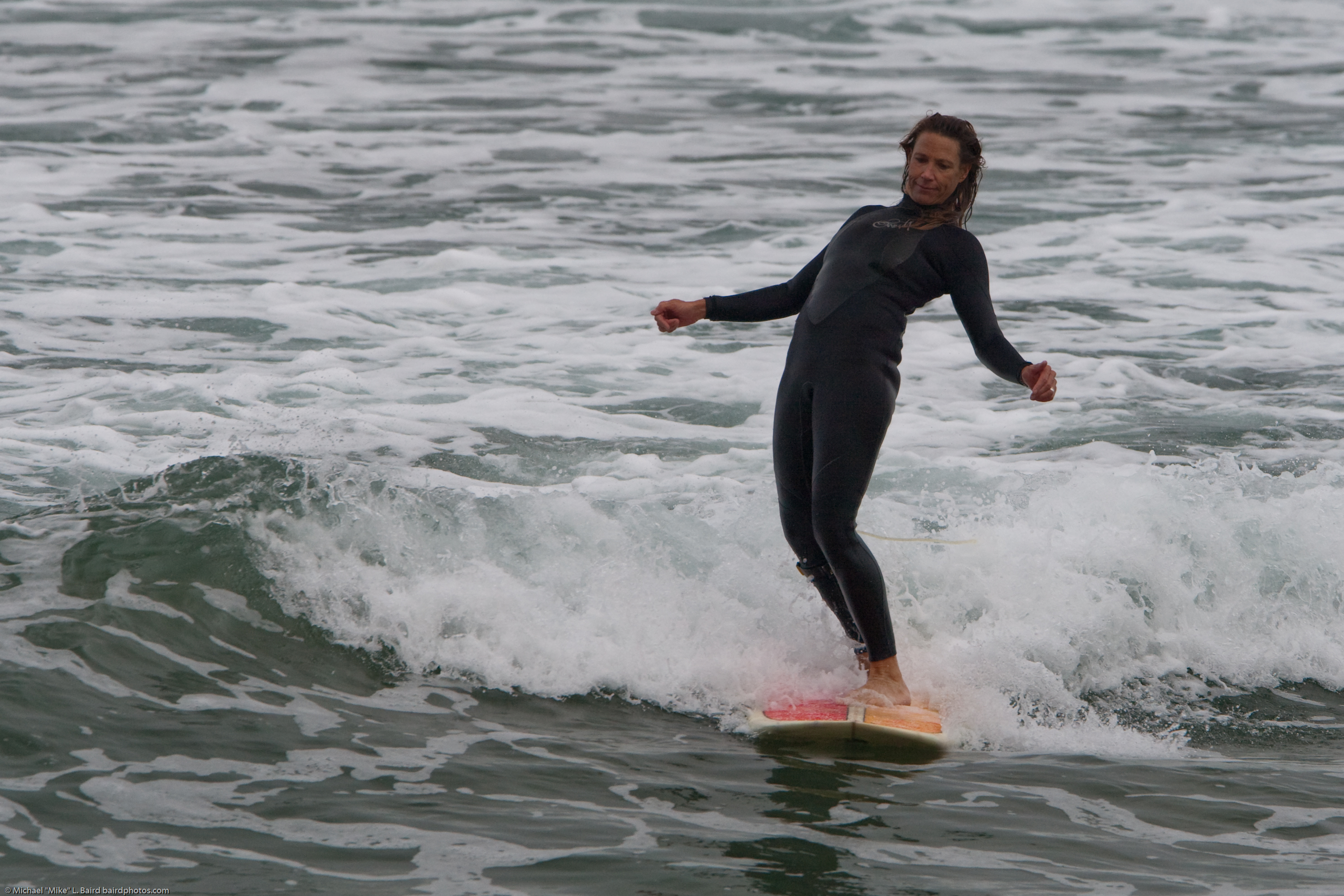 Female Surfer Miranda Joseph gives the sole arch coming in - Scenes from the Morro Rock Morro Bay, CA 21 Feb. 2009 Big, Bad and Ugly Surf contest. Photo by Michael "Mike" L. Baird, , Canon 1D Mark III, 300mm f/2.8 IS w/ Canon EF 1.4X II Extender Telephoto Accessory and circular polarizer, on Wimberley Gimbal Head on Gitzo tripod. says Soul Arch : A classic maneuver when a surfer arches his back through a critical section of the wave to demonstrate casual control. Most people equate the soul arch with one man: Peter Townend. Surfing A-Z The 19th Annual Big, Bad and Ugly Surf contest “The Ugly” is the most challenging surfing event in the Coalition of Surfing Clubs’ schedule. The event was held at Morro Rock on February 21, 2009, beginning at 7:15 AM, and was promoted by the Estero Bay Surf Club Big, Bad and Ugly Surf and Turf Invitational.